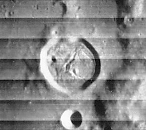 Moon crater Bohnenberger. Detail from Lunar Orbiter IV-065 H2.